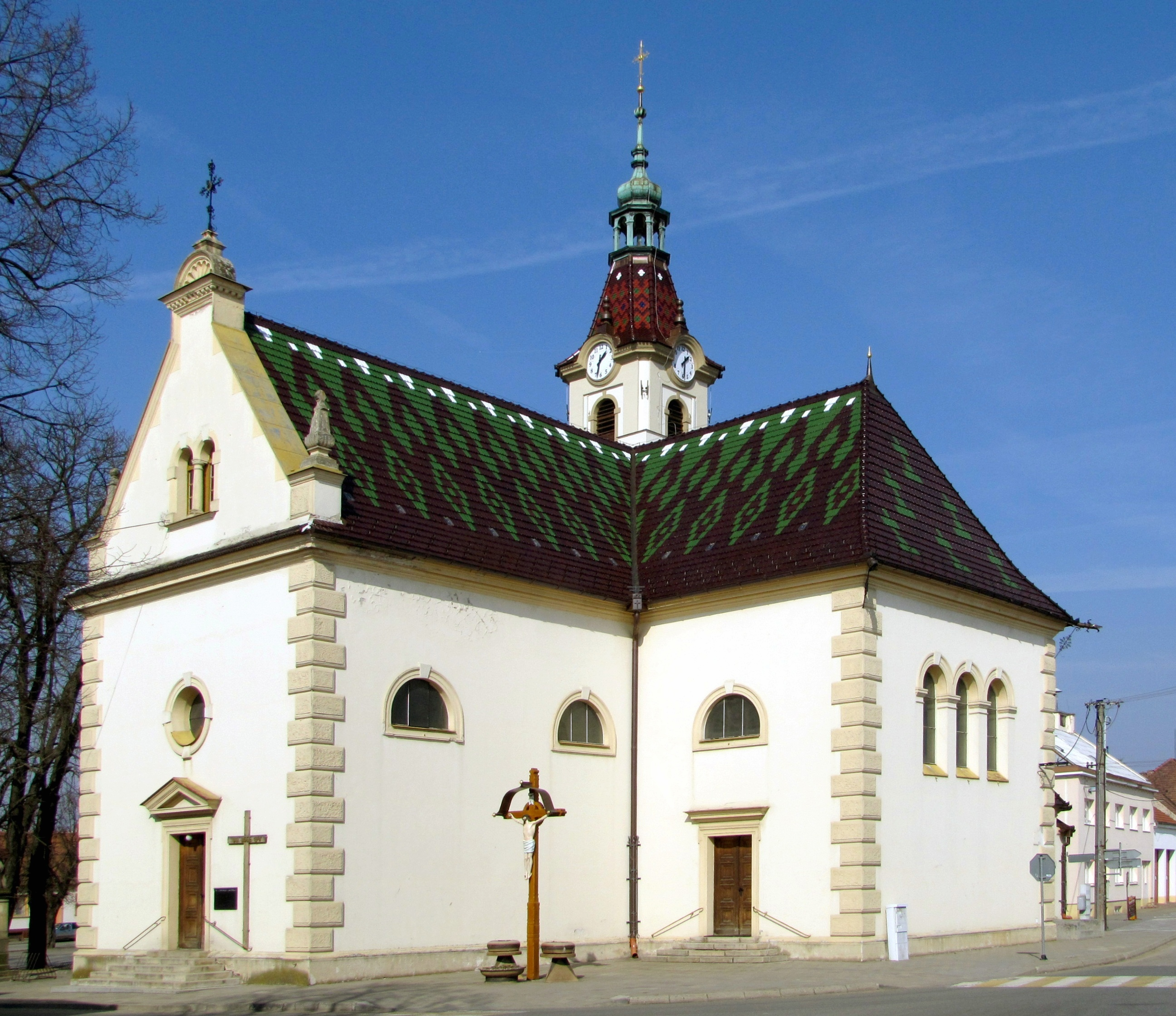 Lanžhot, Moravia, church